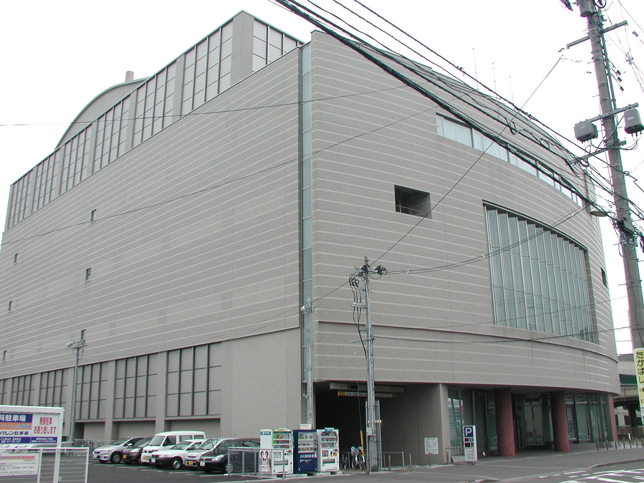 Aomori Civic Hall